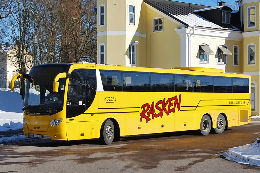 Scania OmniExpress LK340 IB6x2*4NB